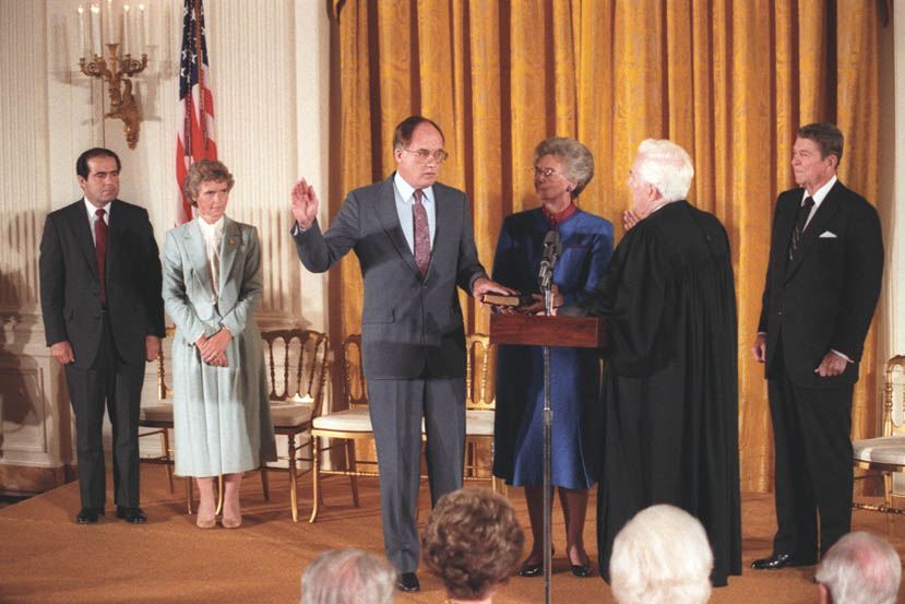 Justice William Rehnquist is sworn in as Chief Justice by his predecessor, Warren Burger as Judge and Mrs. Antonin Scalia and President Ronald Reagan look on.